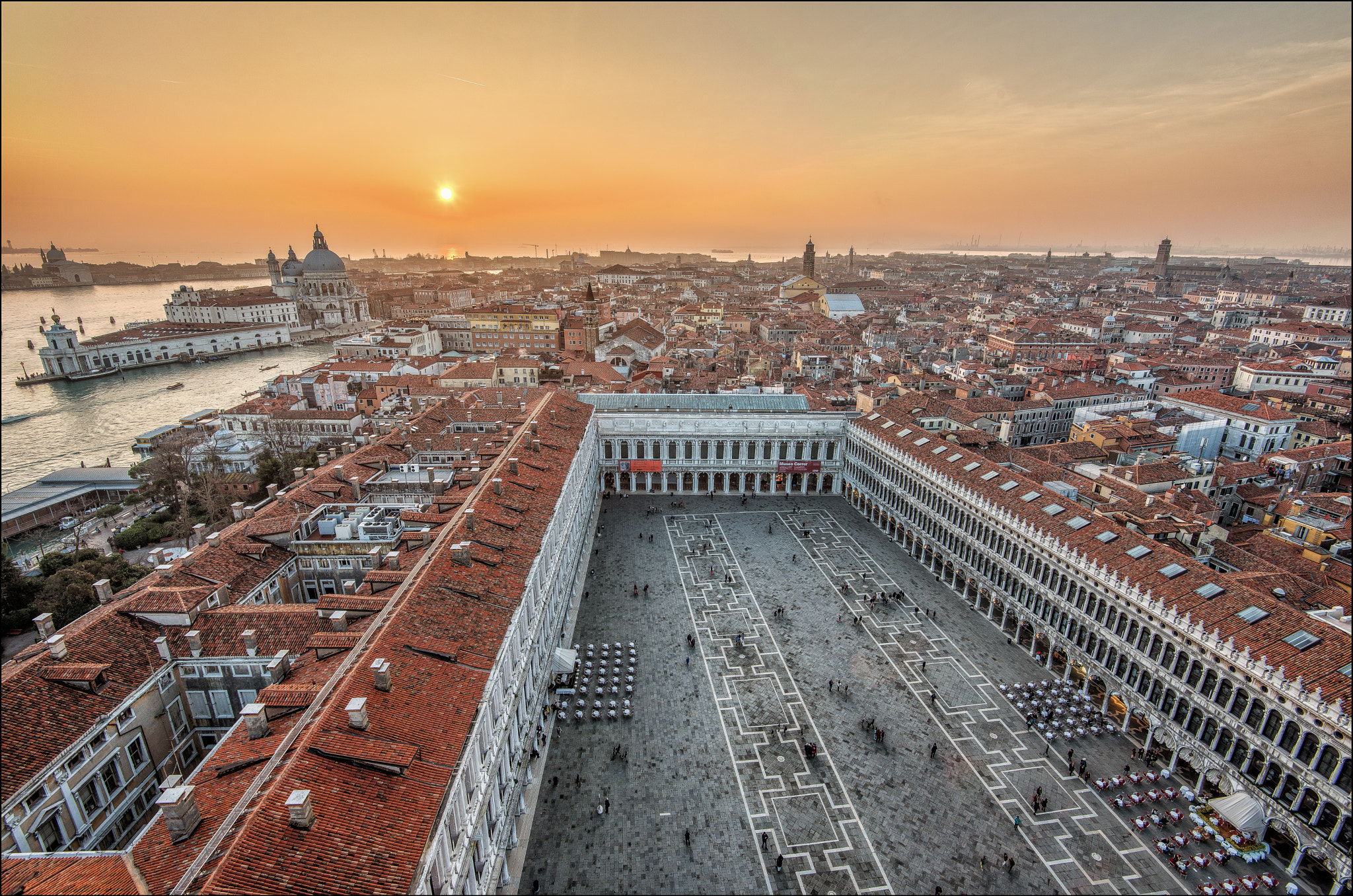 500px provided description: The sun struggles to break through the haze near sunset as seen from the top of the Campanile di San Marco (Bell Tower of St Mark's, Venice, Italy), overlooking Piazza San Marco, more of Venice to the west, and the Adriatic Sea in the far distance. [#landscape ,#city ,#cityscape ,#canal ,#adriatic sea ,#red roofs ,#bell tower ,#grand canal ,#high view ,#Campanile di San Marco ,#Italy ,#Sunset ,#Europe ,#Venice ,#Haze ,#San Marco ,#St Marks ,#Piazza San Marco ,#vantage view]